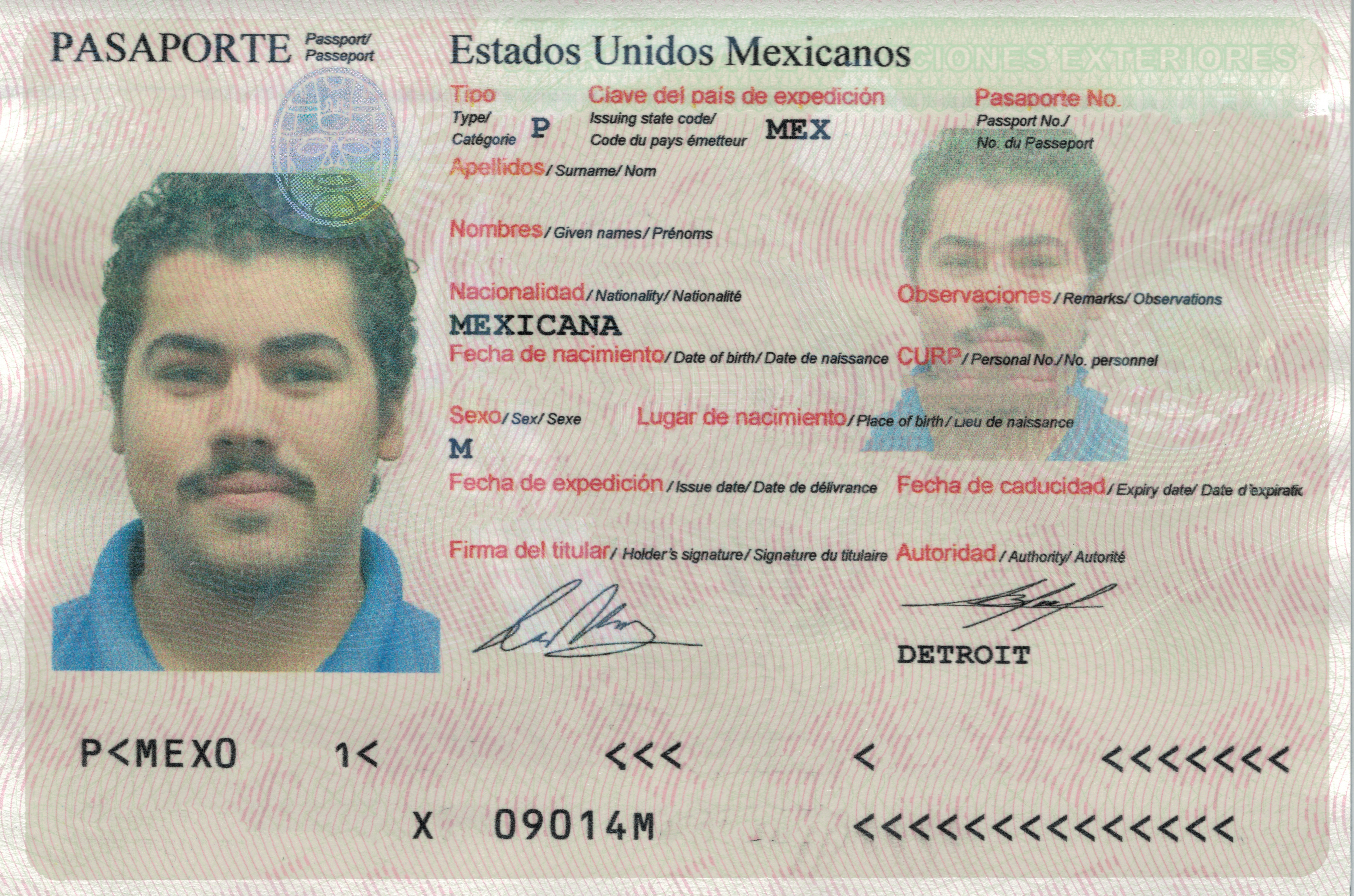 Identity information page on the Mexican passport